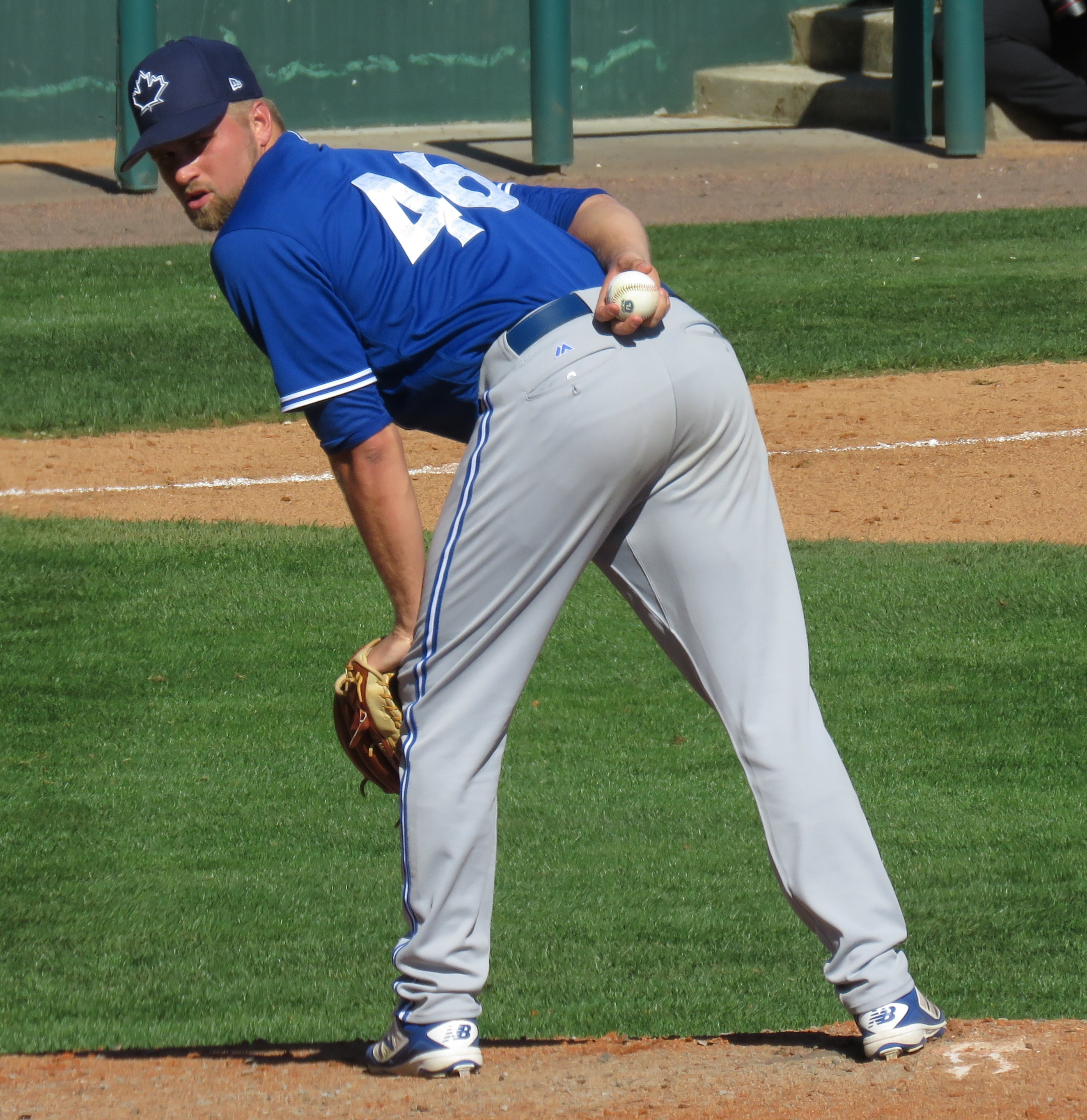 Glenn Sparkman pitching for the Toronto Blue Jays in 2017